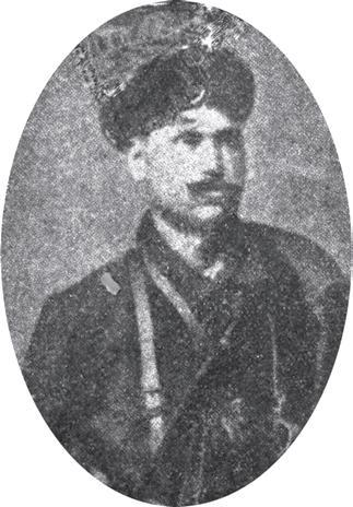 IMARO member Tsvetan Spasov Oreshevski